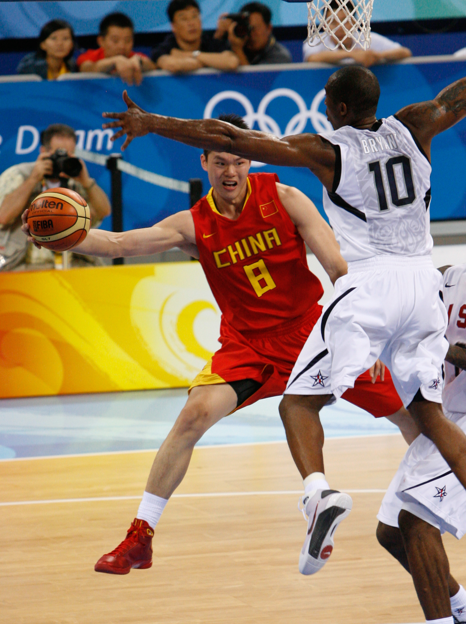 USA vs. China Mens Basketball - Beijing 2008 Olympic Games